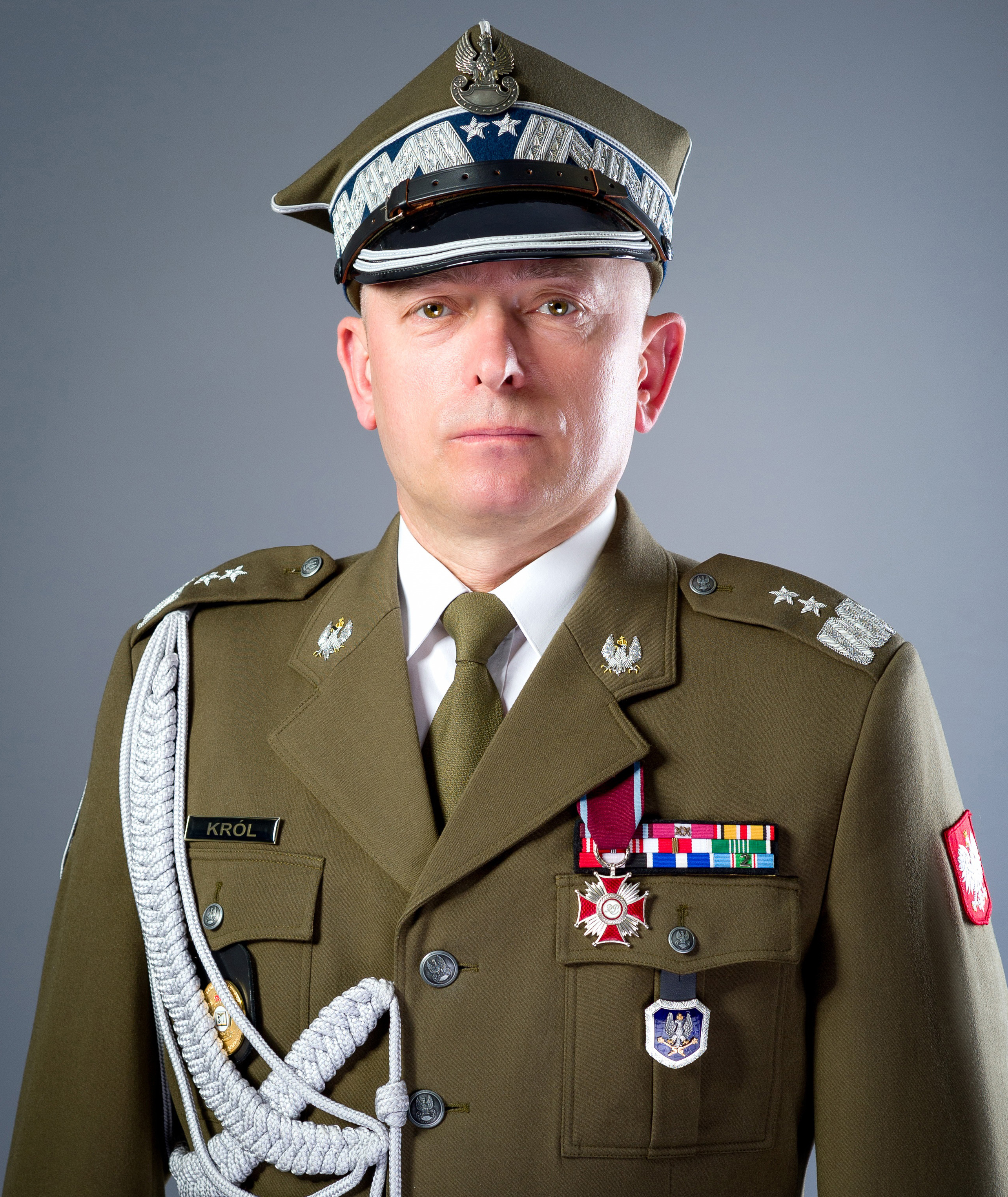 General Krzysztof Król